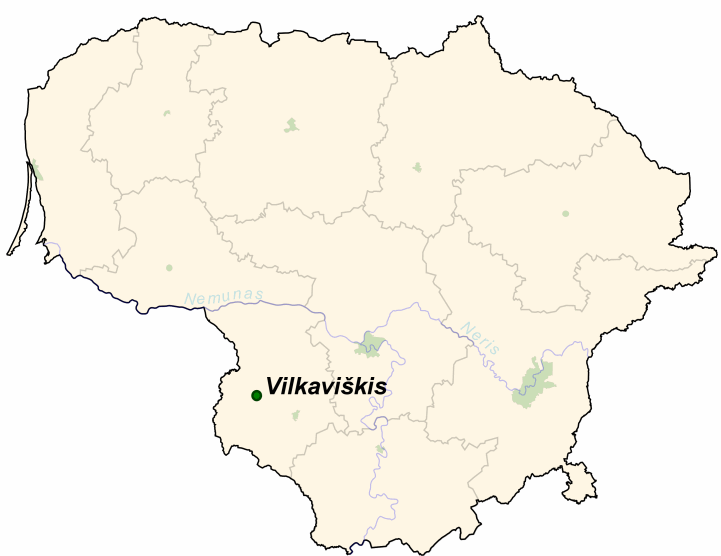 Vilkaviškis on the map of Lithuania